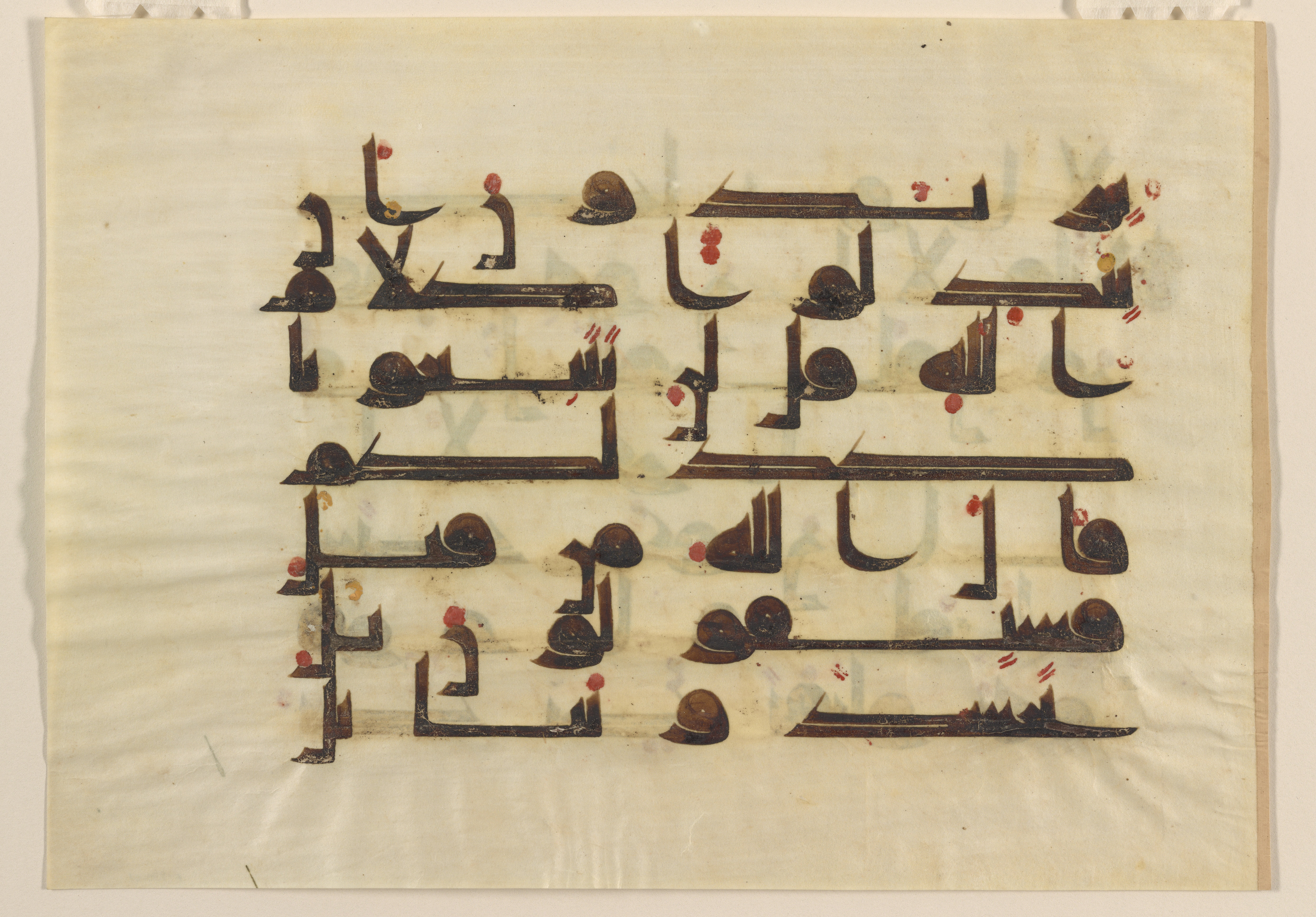 Folio from a Koran, Sura 48, verse 15 Abbasid dynasty Detached folio; ink and color on parchment H: 23.7 W: 33.3 cm Near East or North Africa